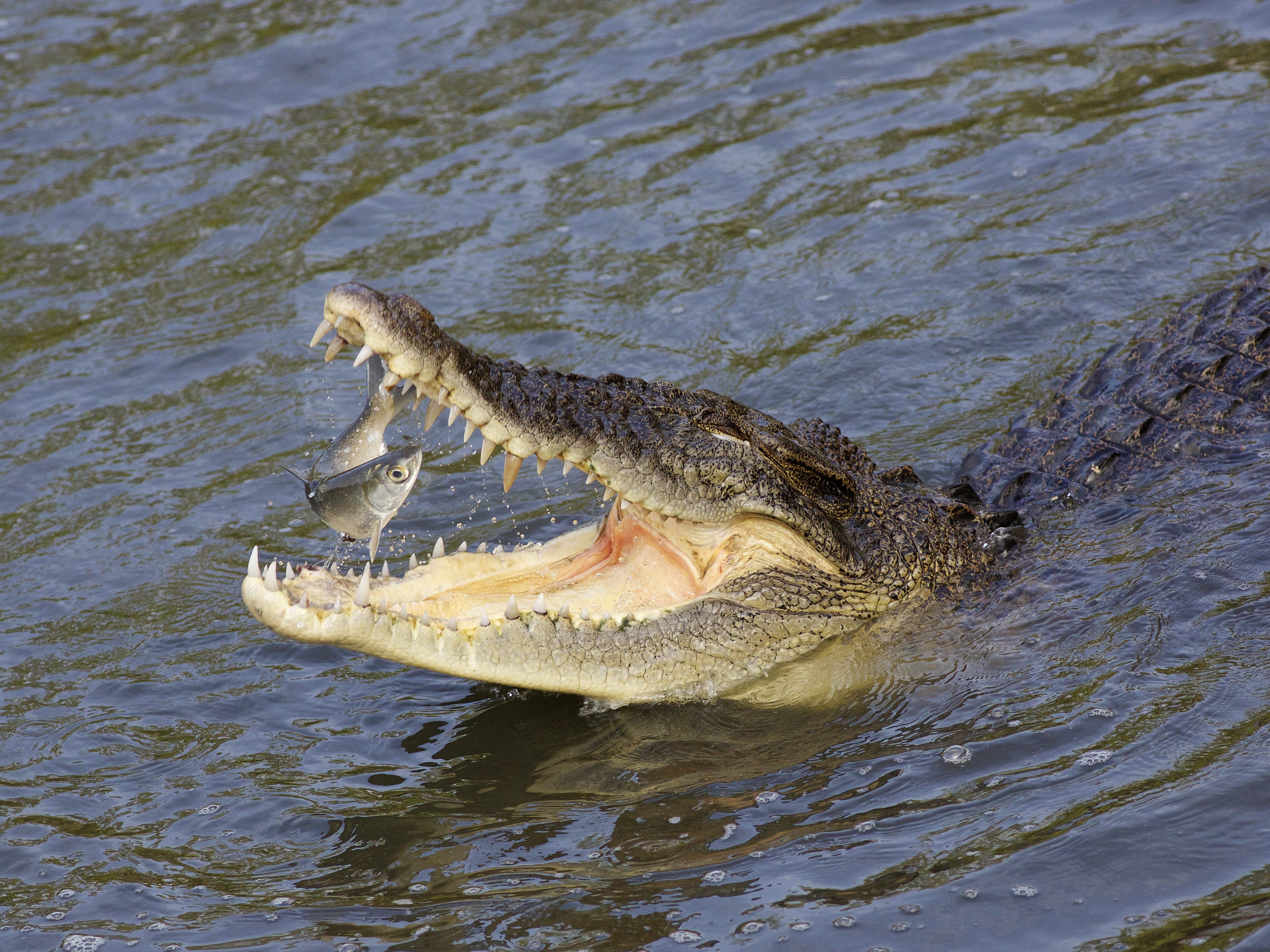 Saltwater crocodile in Sungei Buloh Wetland Reserve. Giving a great show from the bridge at the entrance The capture Fish in mouth Casual flip to position for swallowing Satisfaction PM0A9125